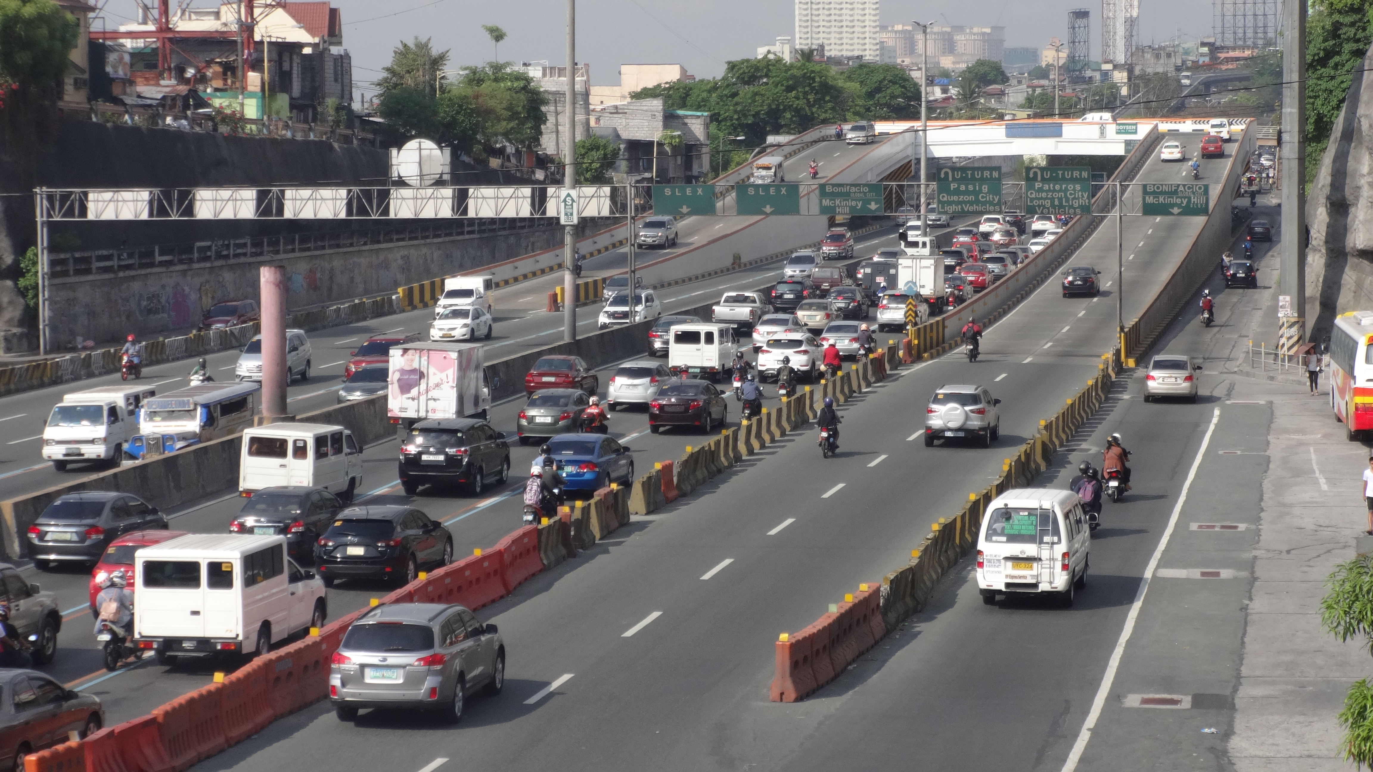 C5-Kalayaan Elevated U-turn in Makati